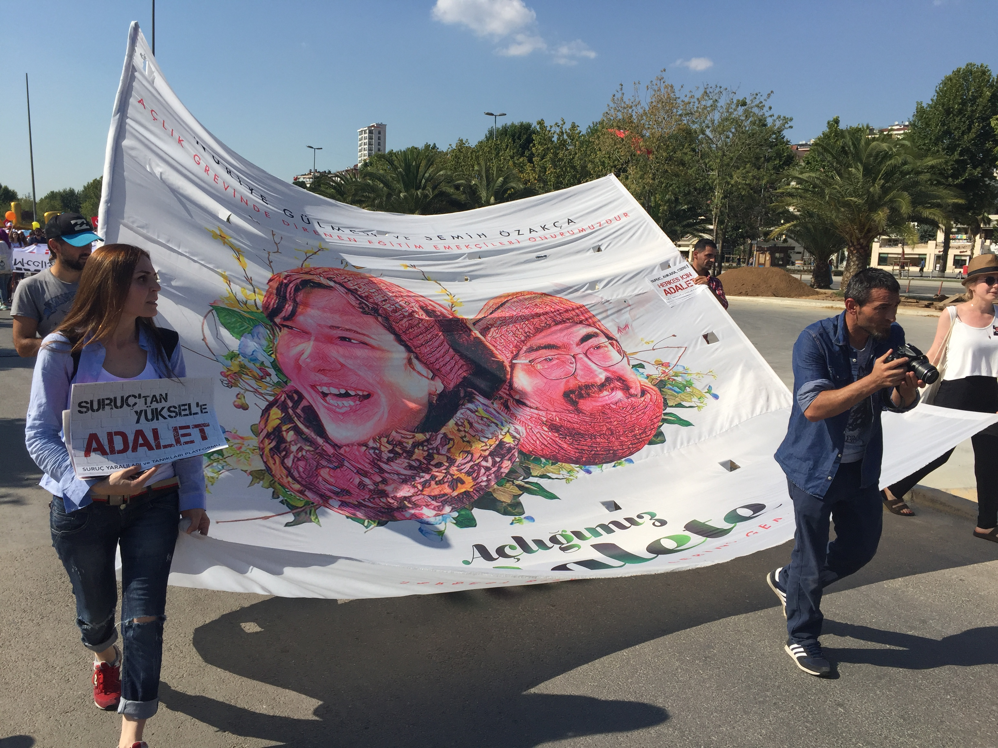 "Justice from Suruç to Yüksel" - Protesters bearing a picture of Nuriye Gülmen and Semih Özakça during the Rally for Justice in Maltepe, İstanbul